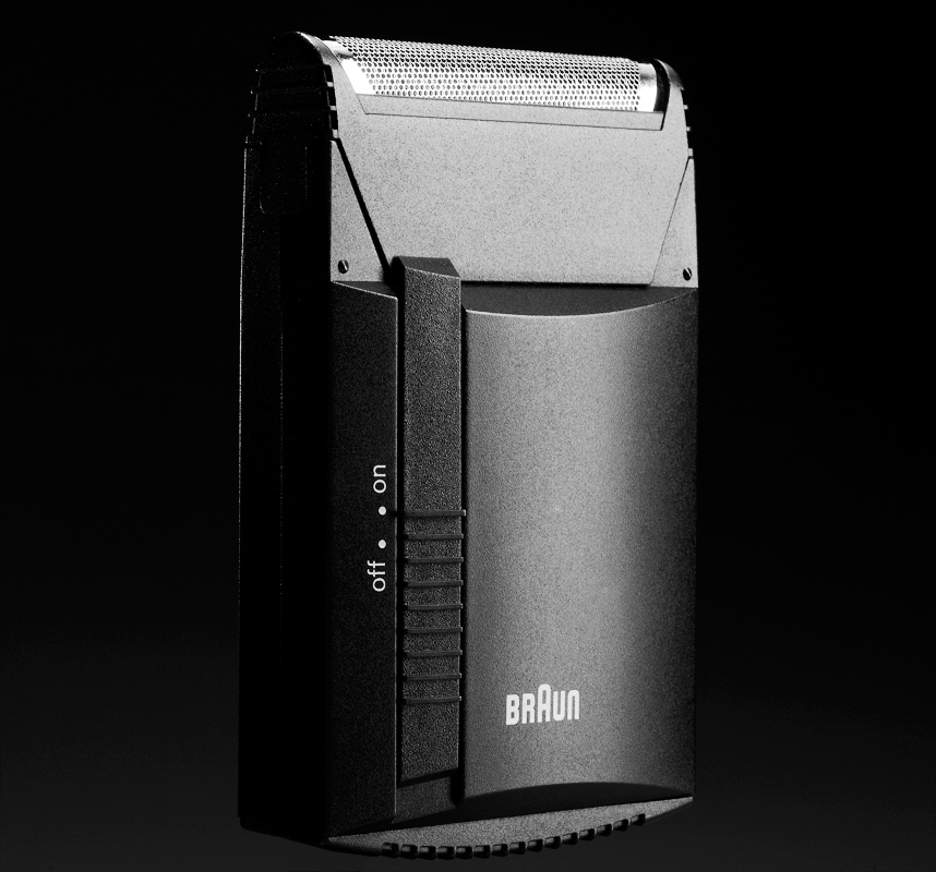 Bruan Shaver